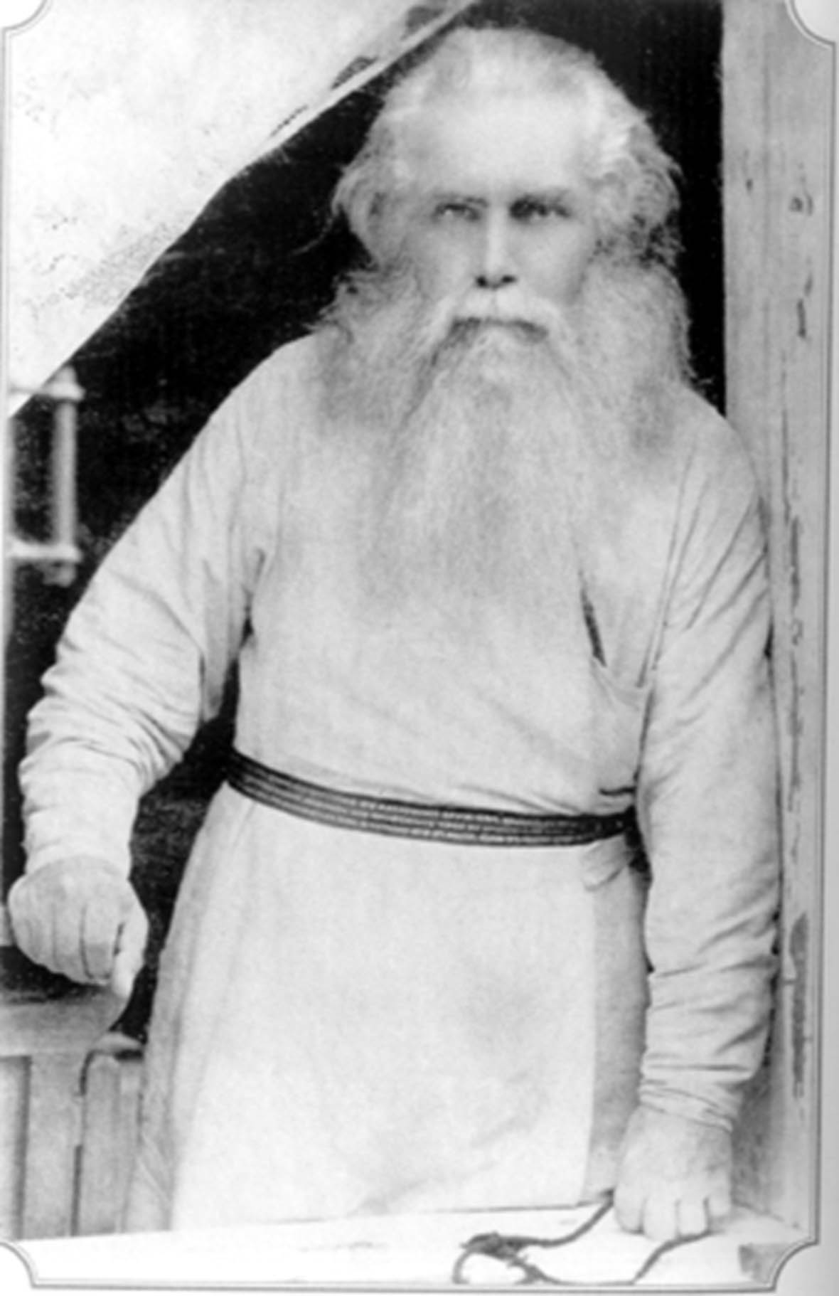 Митрополит Казанский Кирилл (Смирнов) в ссылке. Последняя известная фотография.